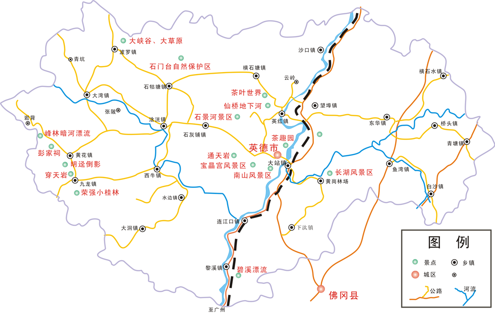 英德市旅游景点分布图 (Yingde City tourist attractions map)